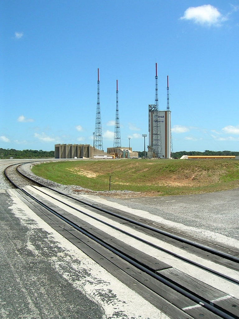 Ariane 5 launch pad (ELA-3) at Guiana Space Centre (French Guiana)